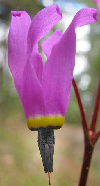 The downward facing flower of a Dodecatheon hendersonii, Henderson's Shootingstar.